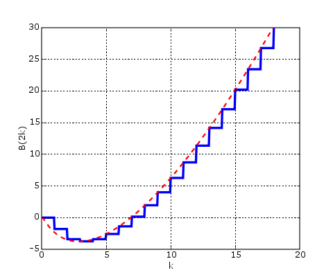 Logarithmic growth rate of the Bernoulli numbers of even index. Solid blue graph shows log ⁡ | B ⌊ 2 k ⌋ | {\displaystyle \log |B_{\lfloor 2k\rfloor }|} , dotted red graph shows the asymptotic estimate log ⁡ ( 4 π k ( k π e ) 2 k ) {\displaystyle \log \left(4{\sqrt {\pi k \left({\frac {k}{\pi e \right)^{2k}\right)} .